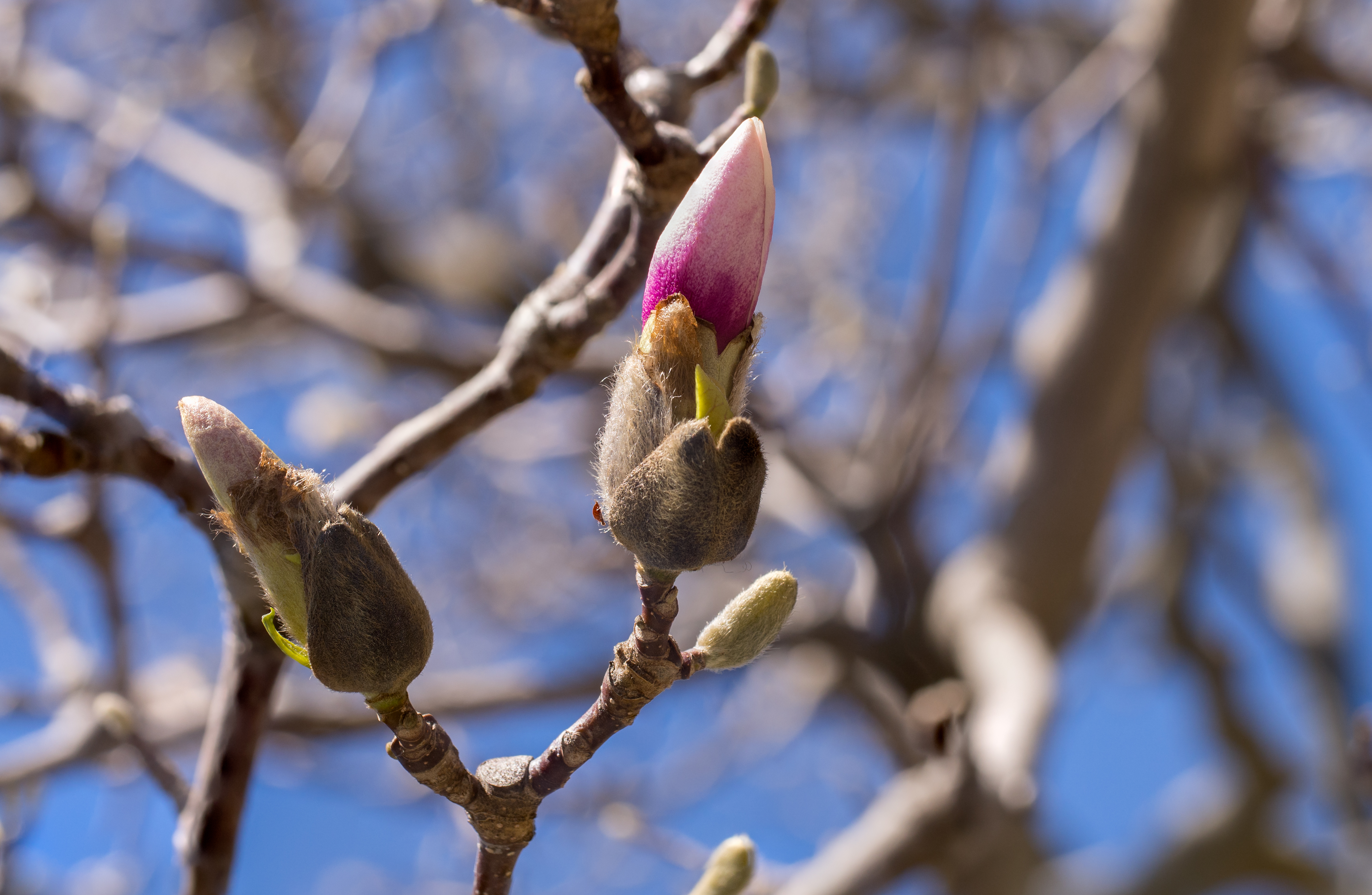 Saucer magnolia (Magnolia × soulangeana) buds starting to flower at the Brooklyn Botanic Garden.